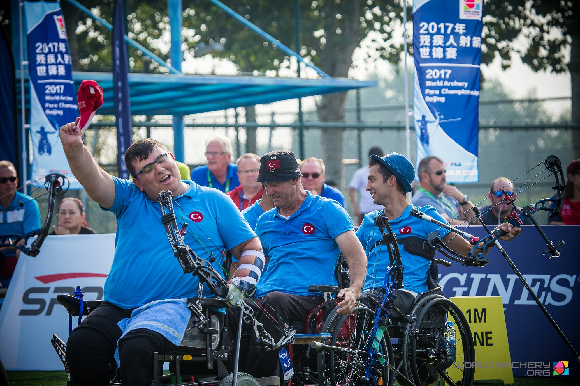 Beijing 2017 Para-archery World Championship title celebration of Turkey